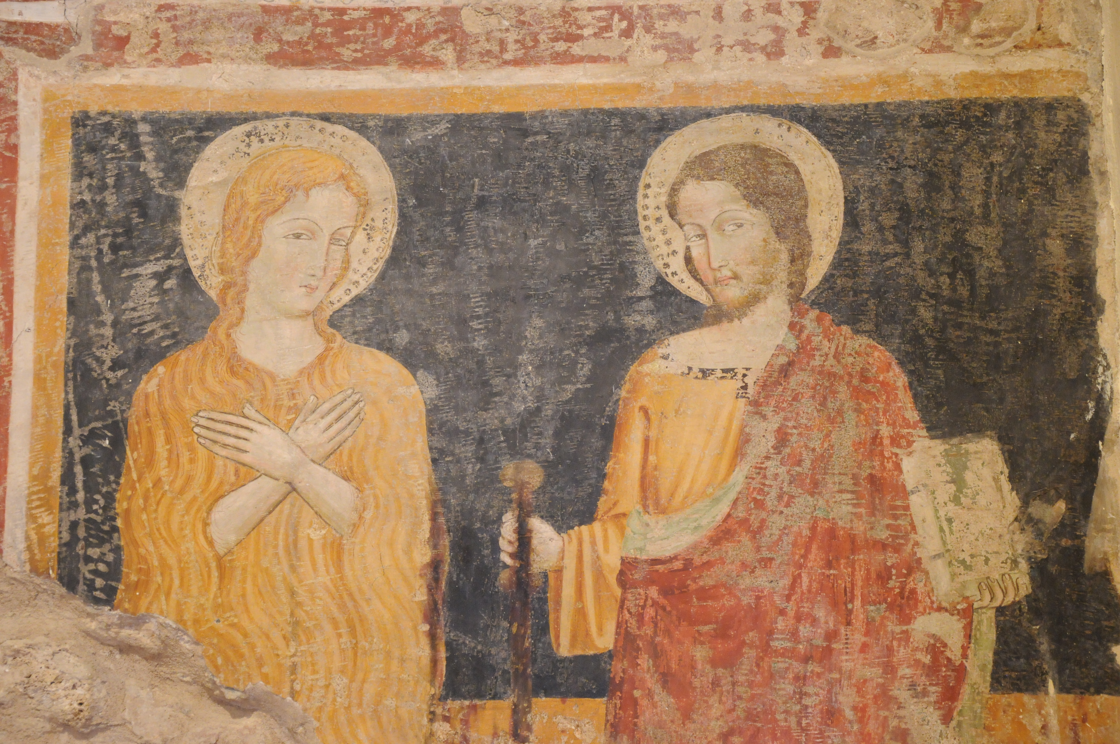 Church of St. Augustine - Rieti (Lazio, Italy)